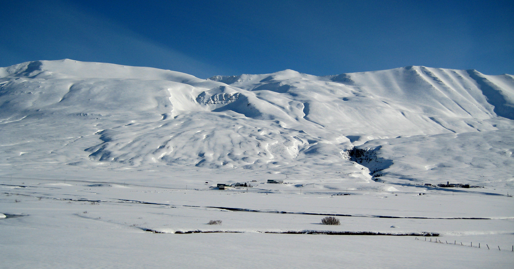 Mt Rimar and more mountains in Svarfaðardalur N-Iceland